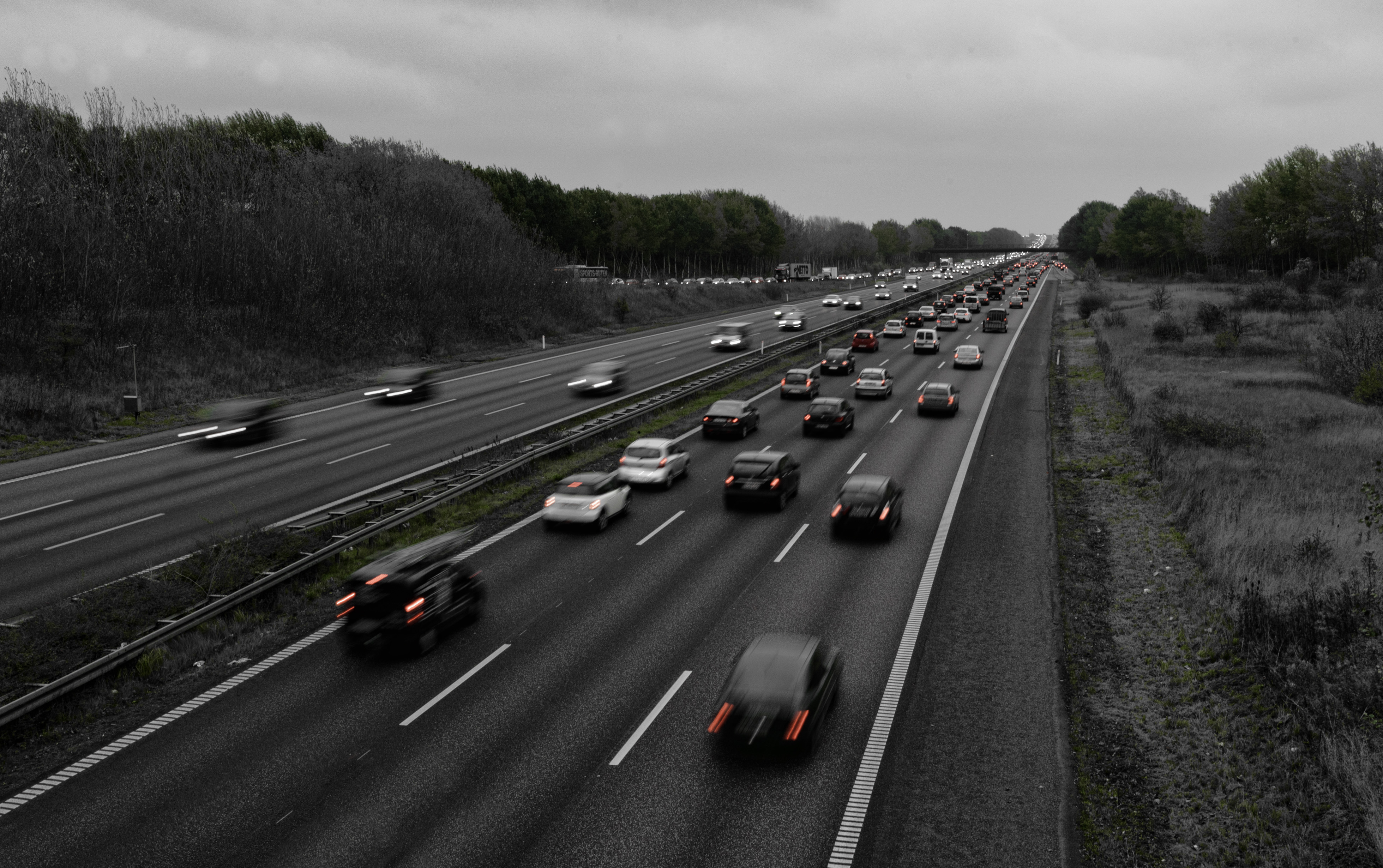 Morning rush hour on motorway E20 looking east. The majority of the traffic is headed east for the city centre of Copenhagen or off the ramp visible, leading to two major industrial districts.